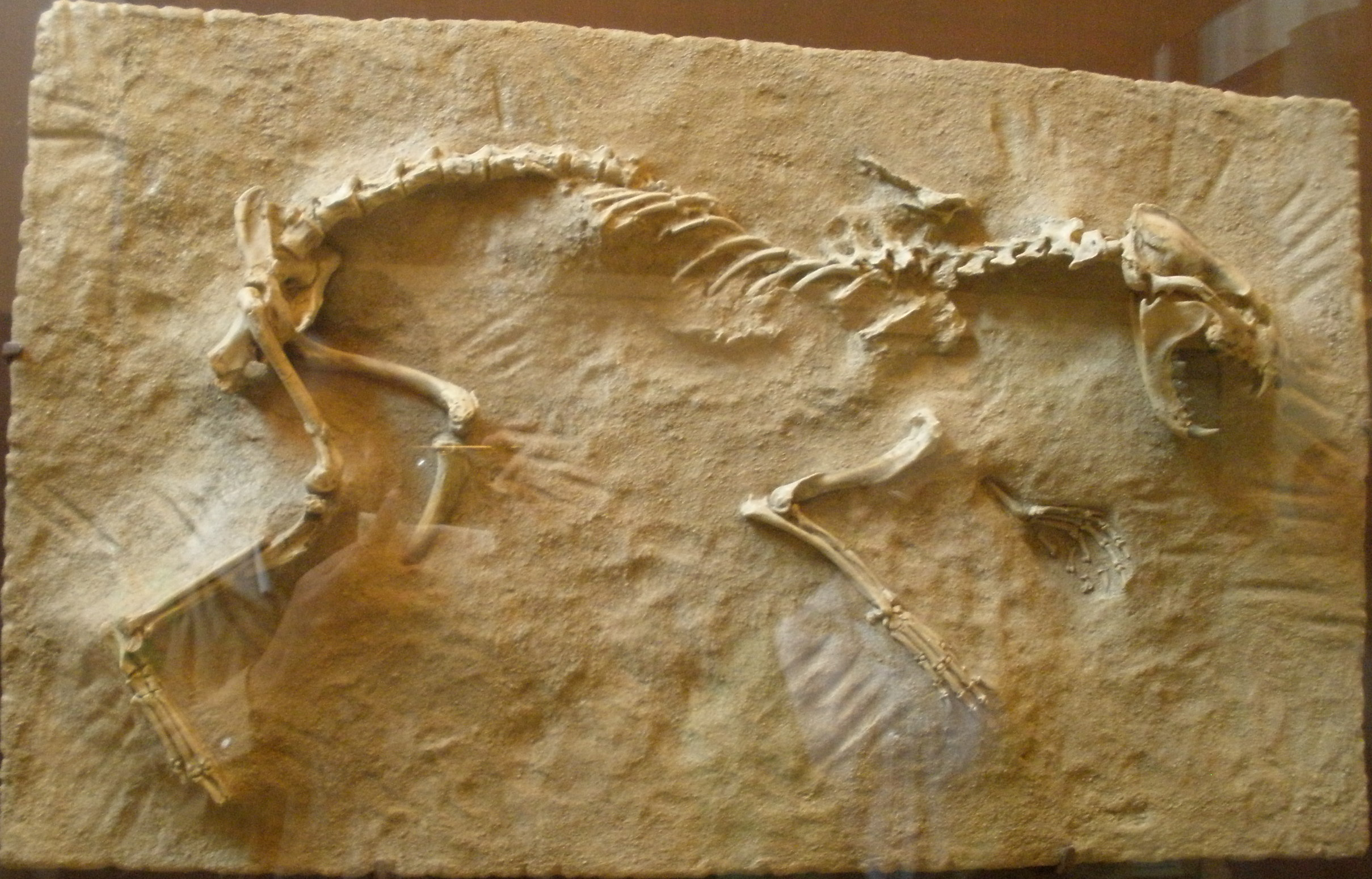 fossil of Sthenictis, an extinct carnivoran